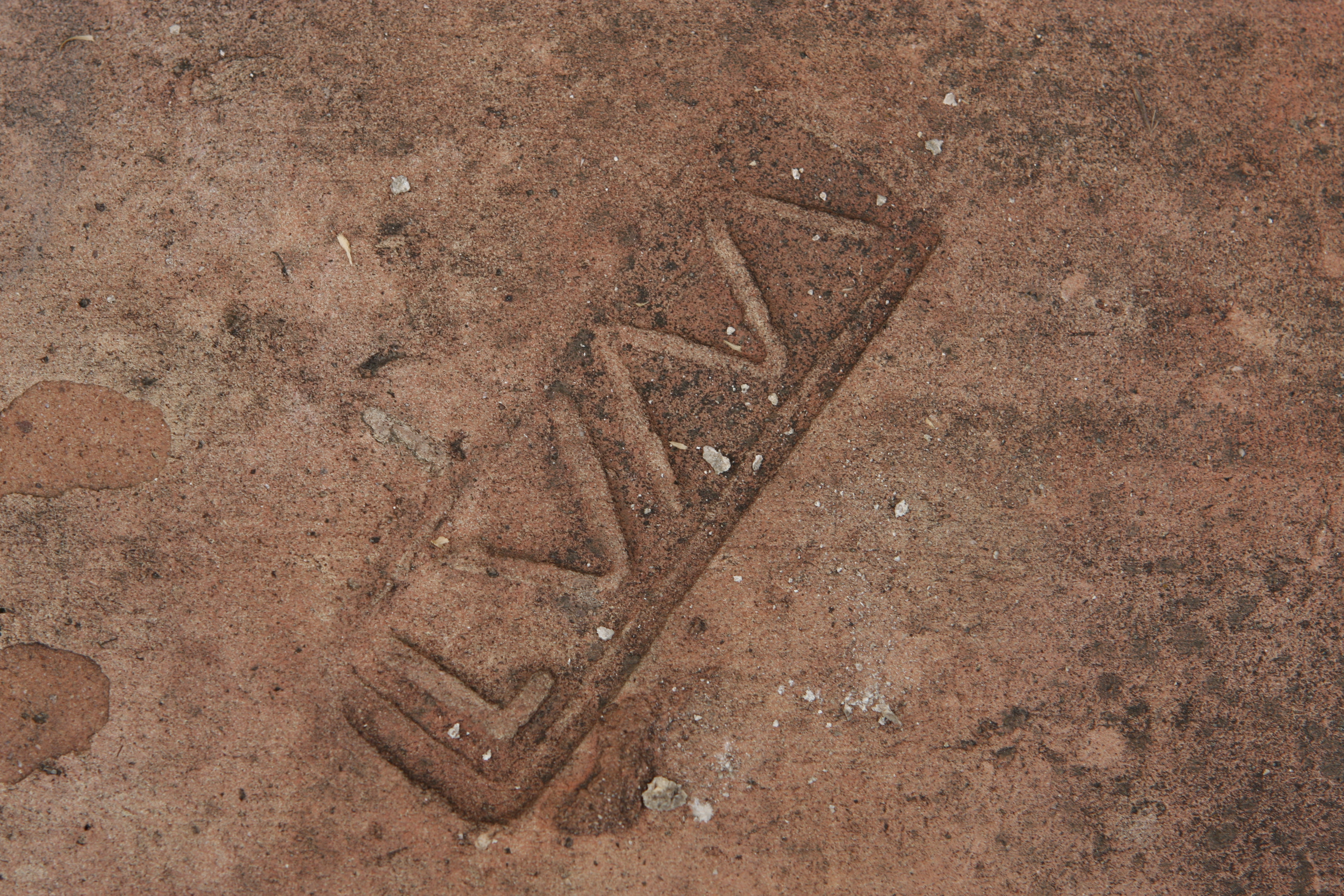 "LVM" mark on a brick in Potaissa